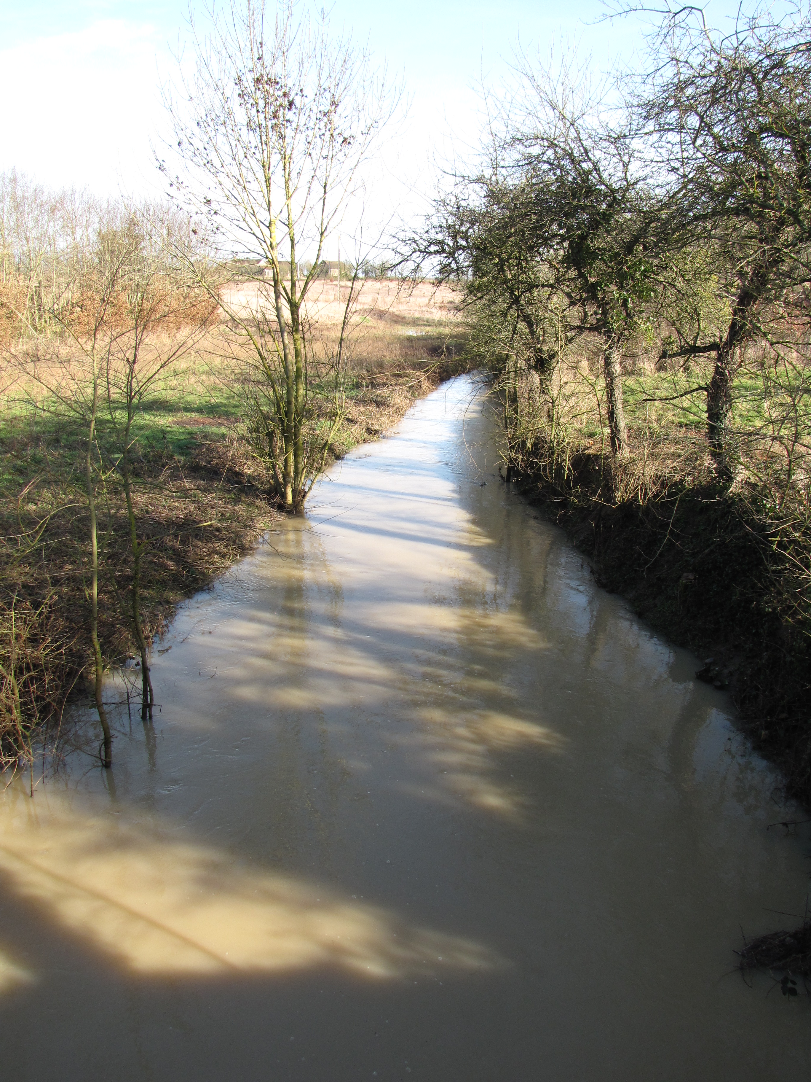 Marchais-Beton, Yonne, Burgundy, France. Ru du Cuivre crossing the D 57 road, west of Marchais-Beton. The village is on the left, and the picture is looking north and downstream.